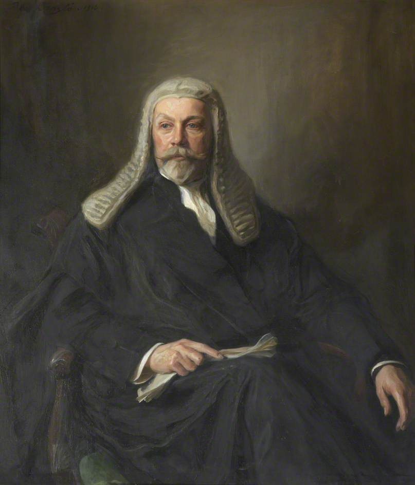 James William Lowther MP, Speaker of the House of Commons